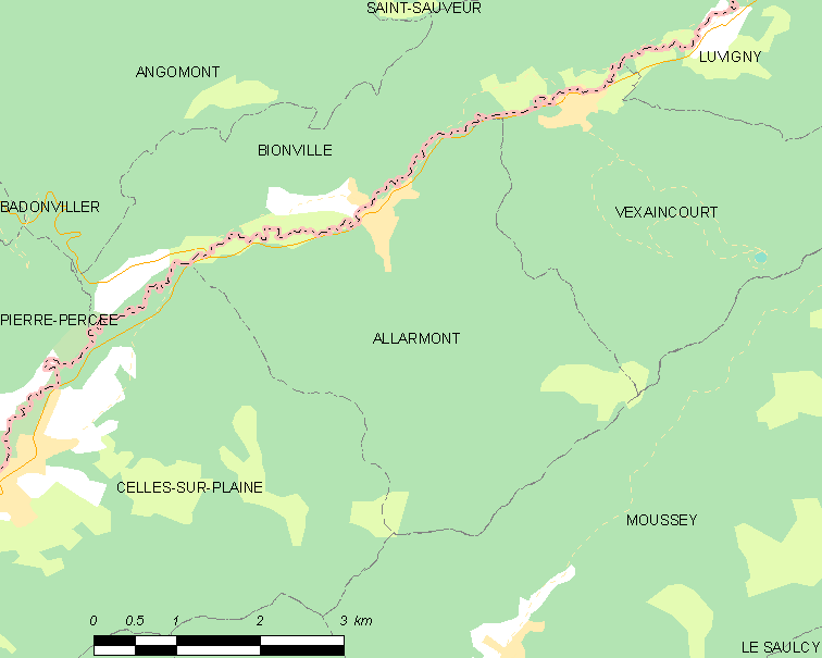 Map of French municipality Allarmont